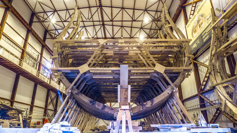 Ribs of the ship «Poltava», July 2014